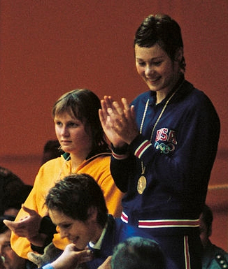 Shan Gould, Keena Rothhammer, Novella Calligaris, 1972 Olympics